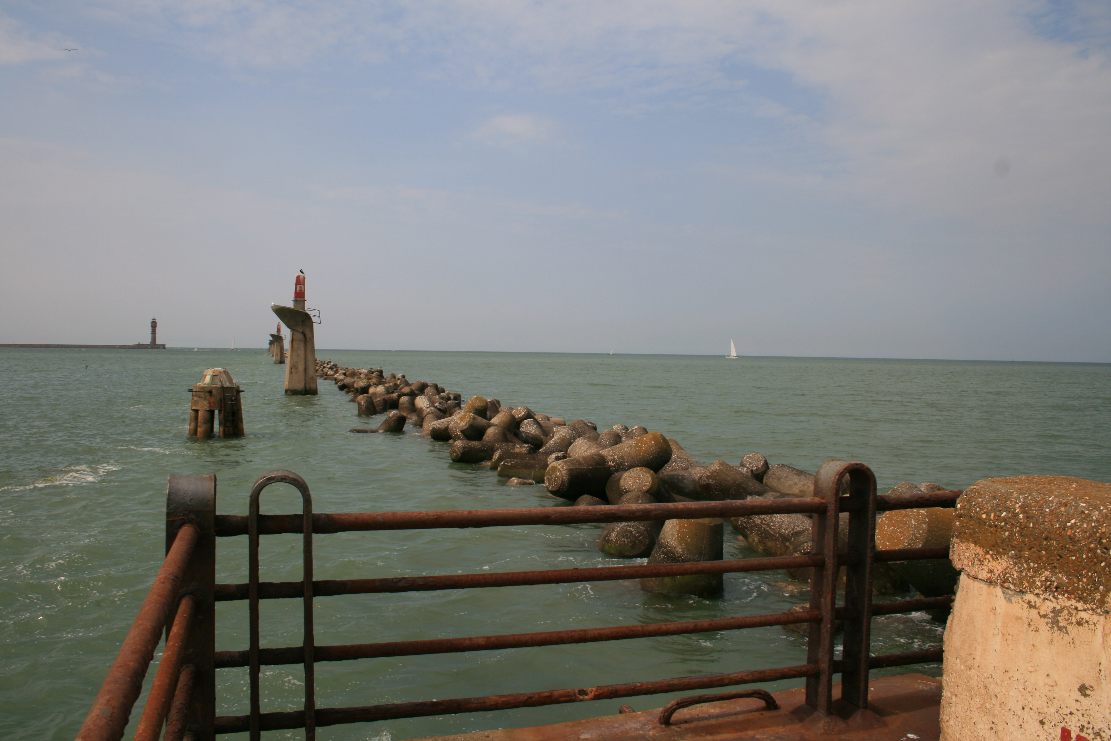 The remains of the East Mole at Dunkirk from where many British troops were rescued during the Battle of Dunkirk